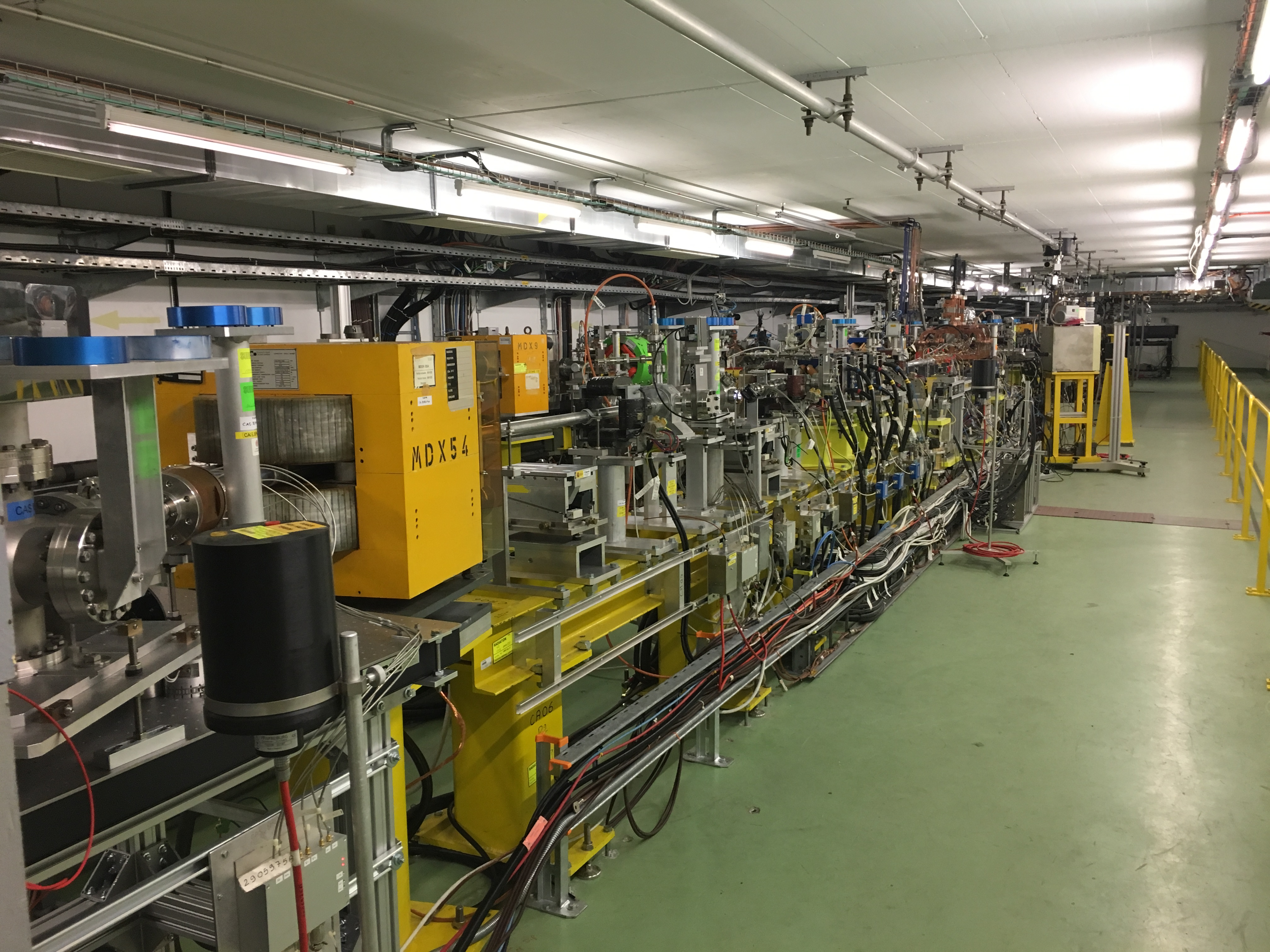 Picture of the CERN Linear Electron Accelerator for Research seen from the end of the line beam dump.